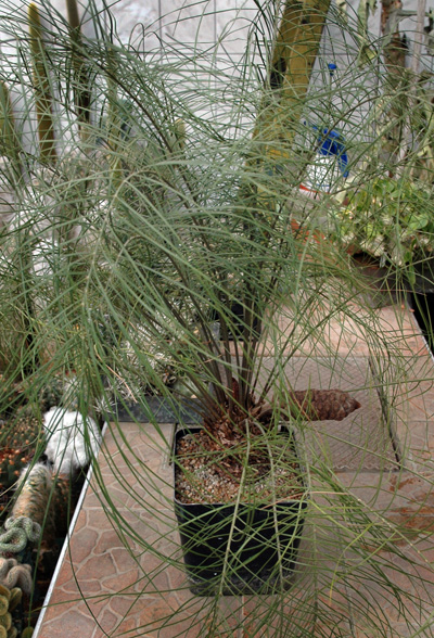 female Zamia angustifolia 35 years old, grown in pot since young